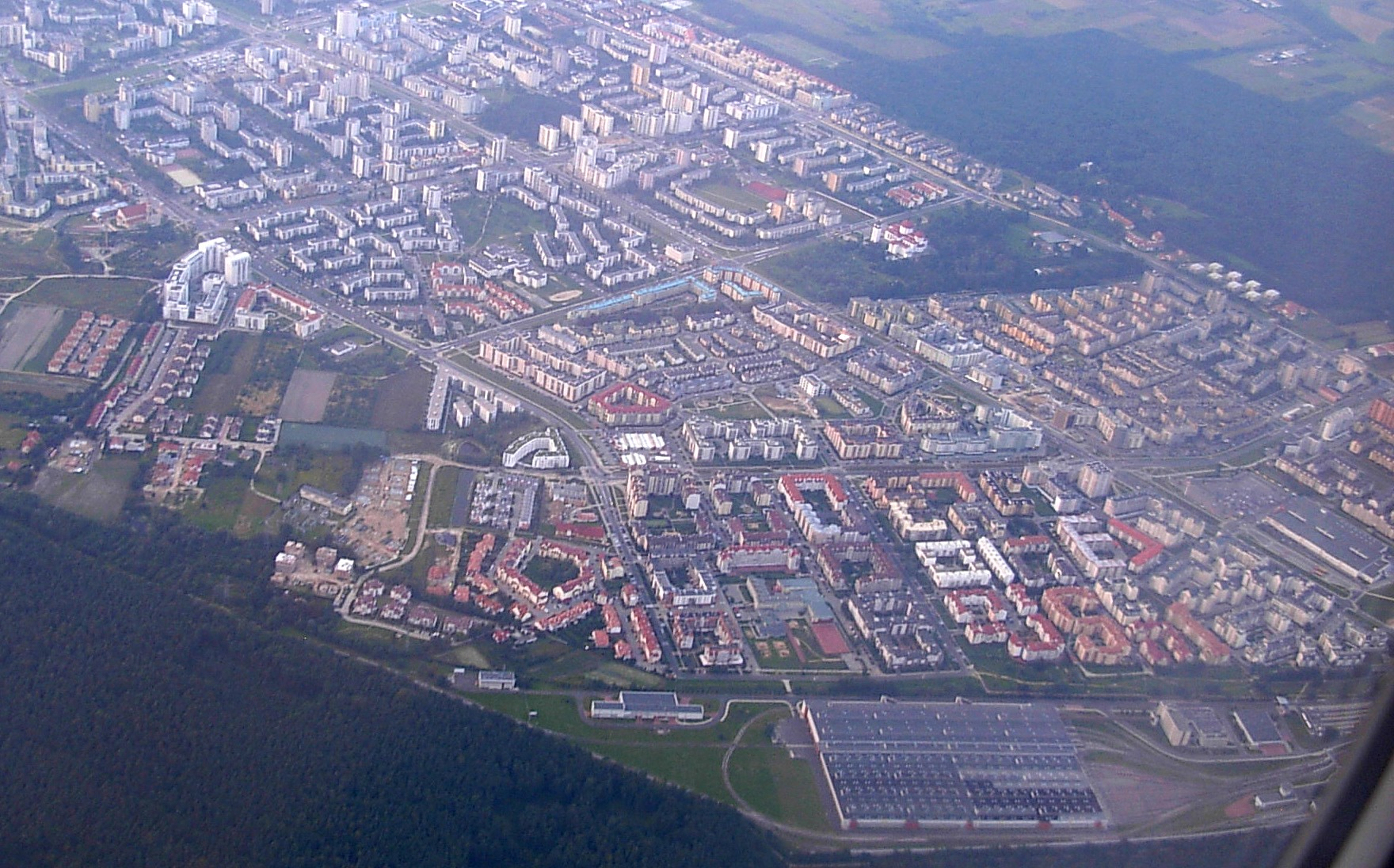 Aerial view of Kabaty district in Warsaw